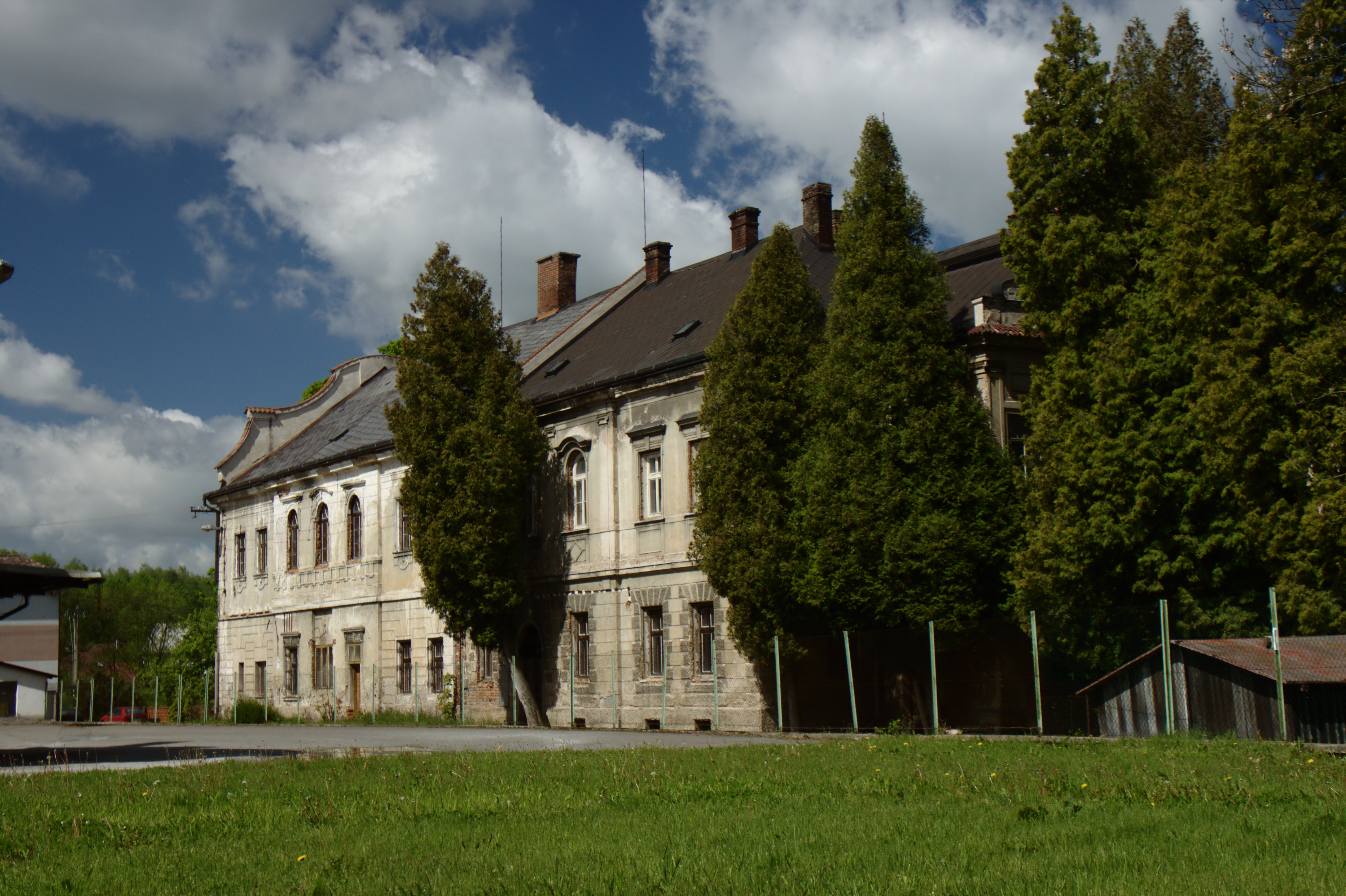 Ronov nad Sázavou Castle, Vysočina Region, CZ